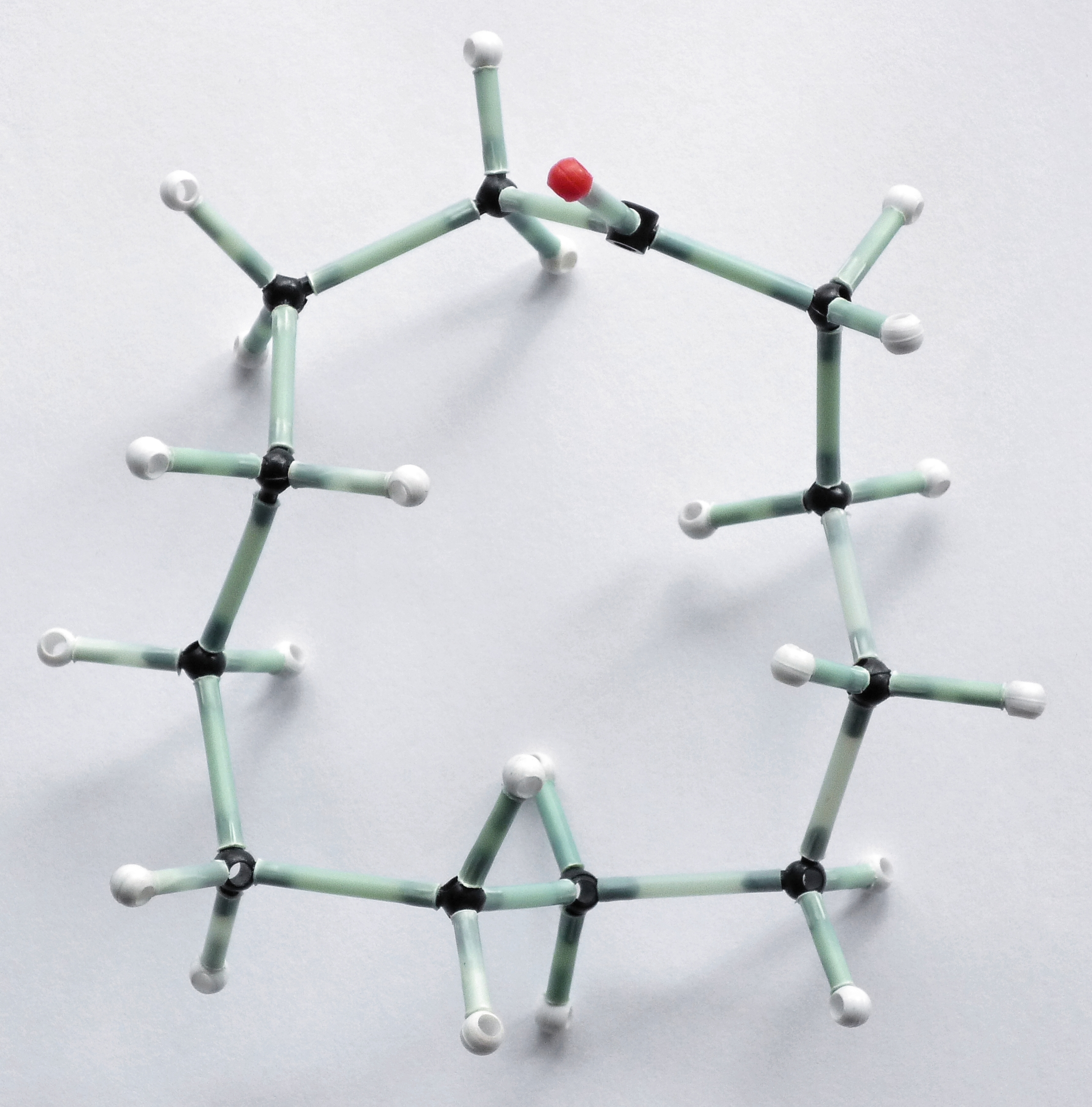 Cyclododecanone, conformation (ball-and stick-model)